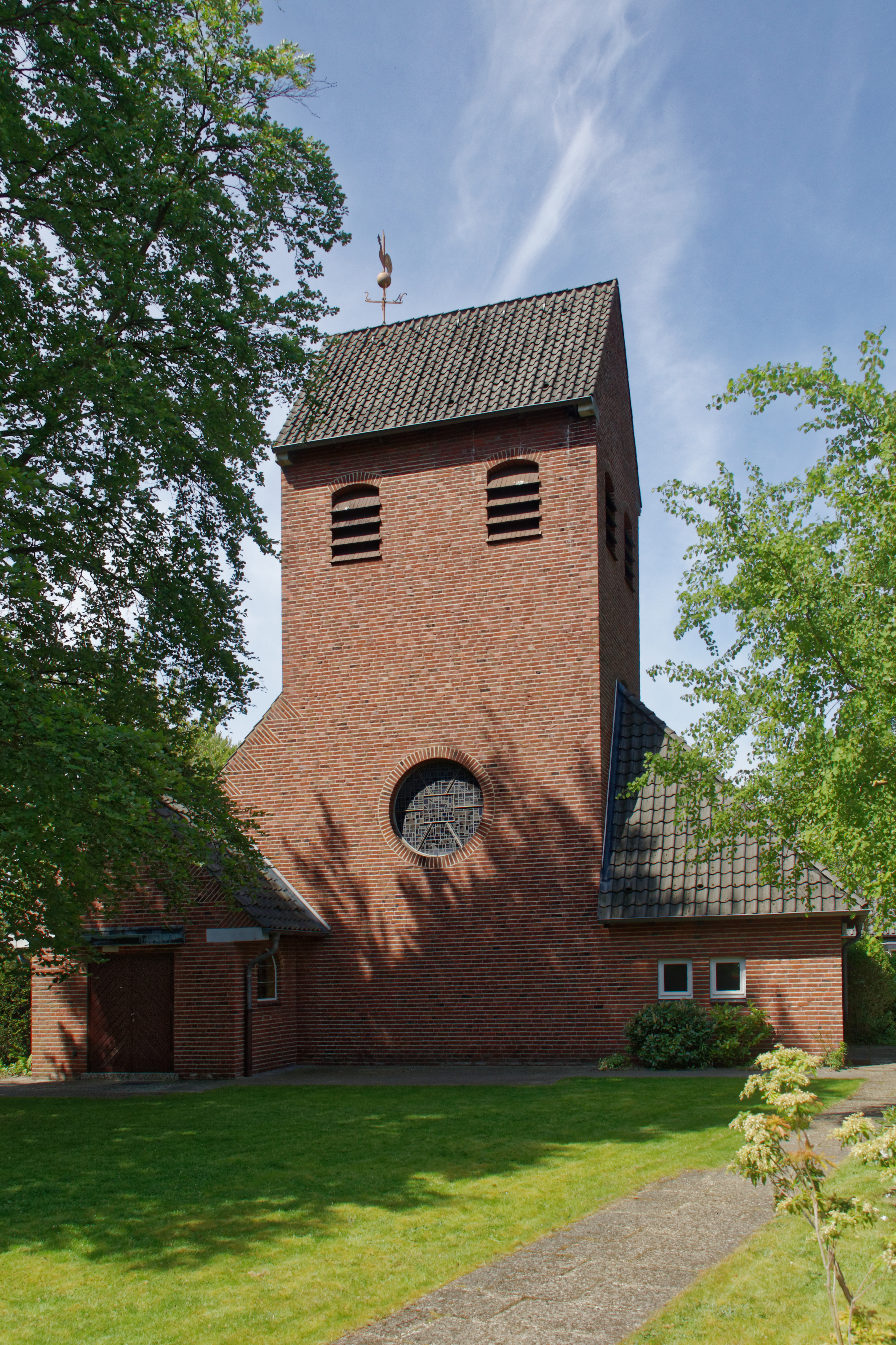 Tower of the church in Hamburg-Rissen